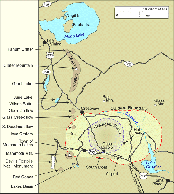 United States Geological Survey map of the Long Valley Caldera and Mono Lake, California